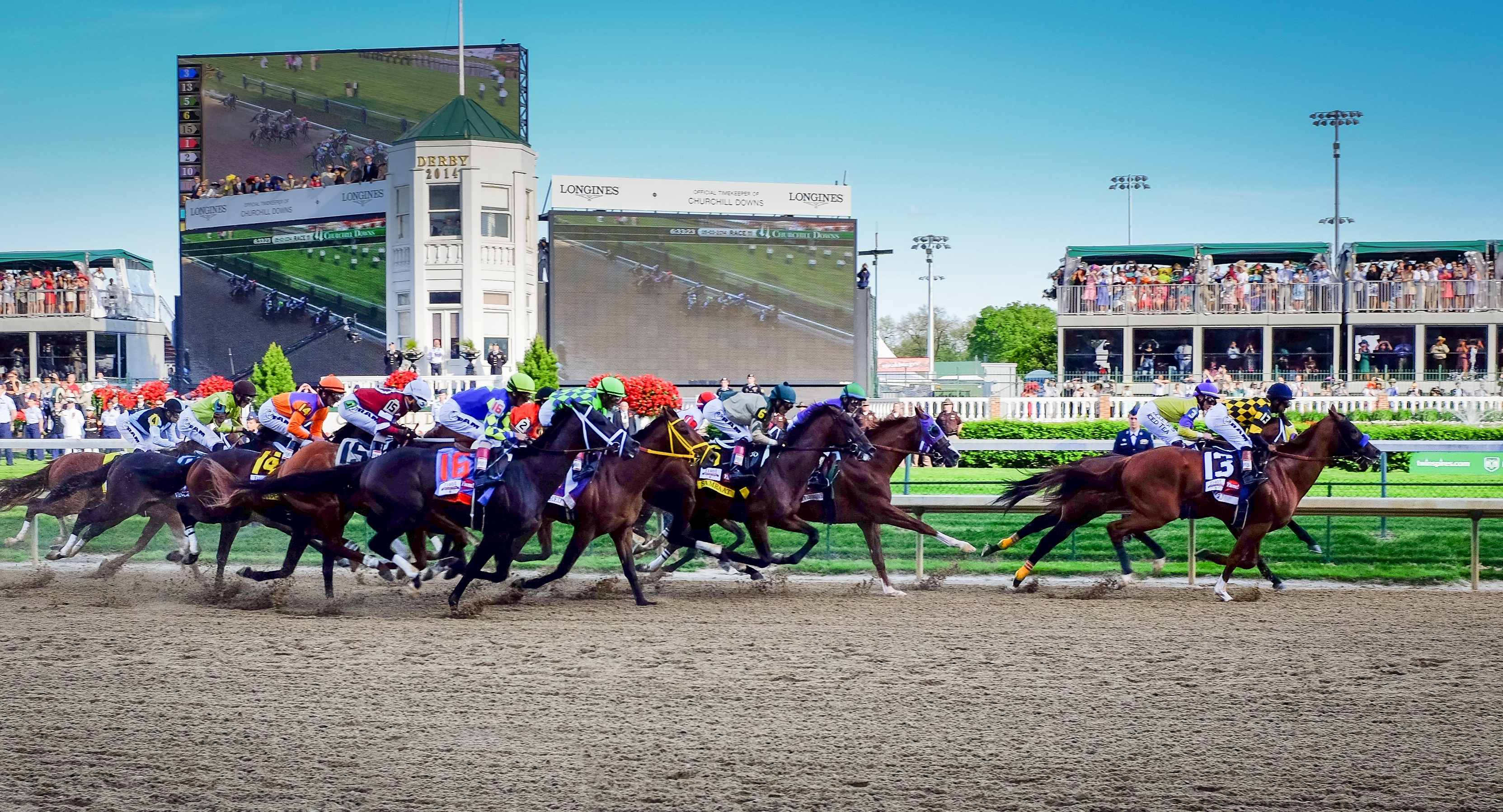 Kentucky Derby field 2014, early part of race